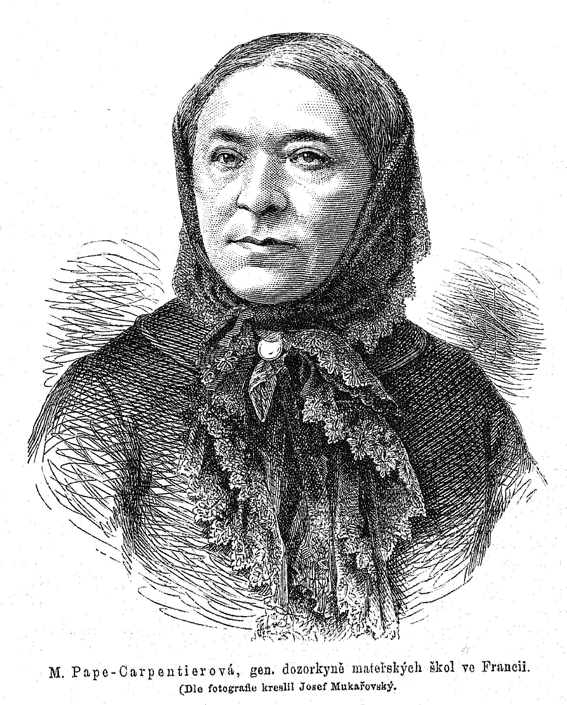 Portrait of Marie Pape-Carpantier (1815 - 1878), general supervisor of day care centers in France